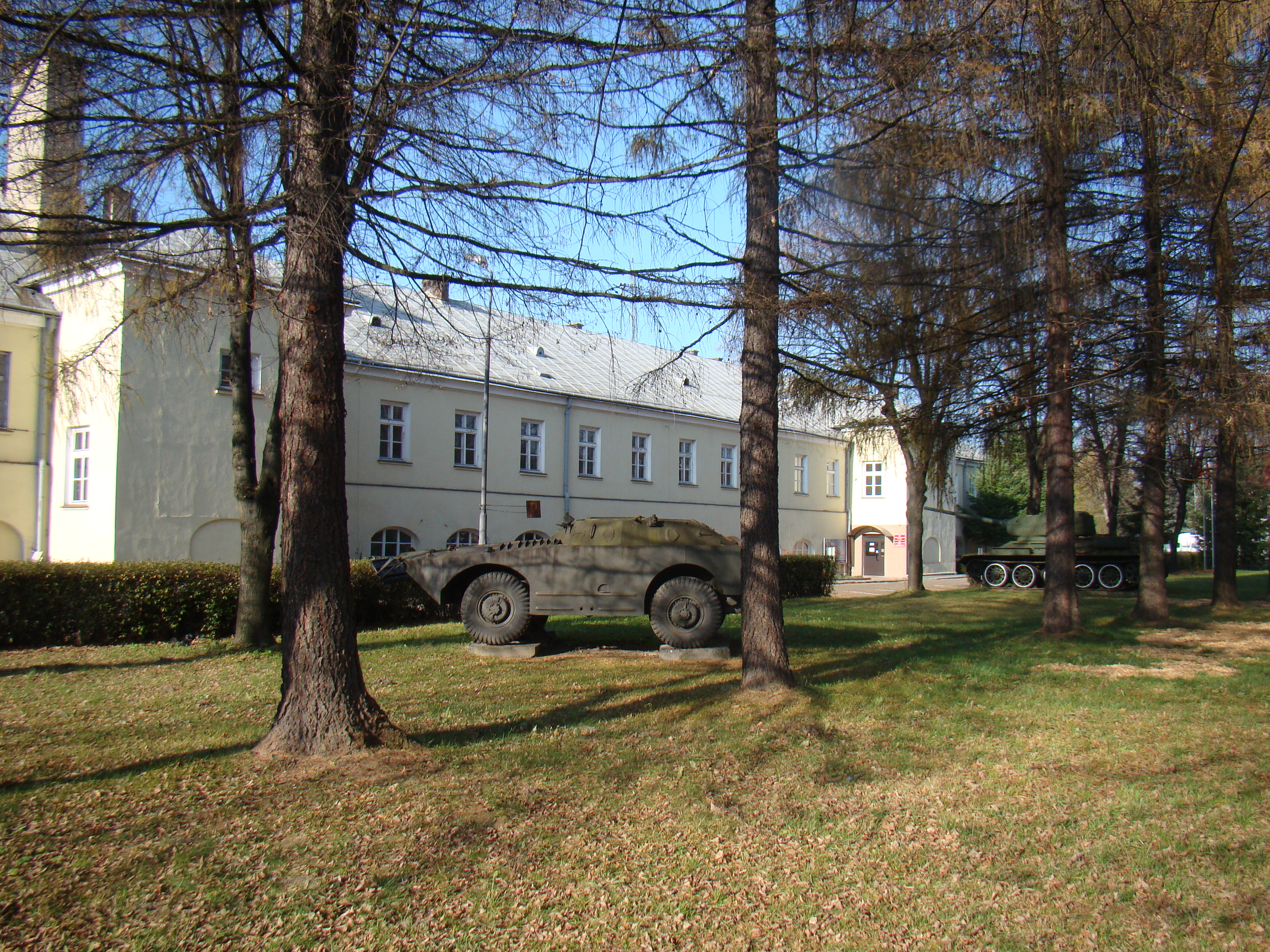 The old barracks of 26 Pułk Czołgów Średnich in Sanok. The old barracks are now used by the Wojskowa Komenda Uzuepełnień center.